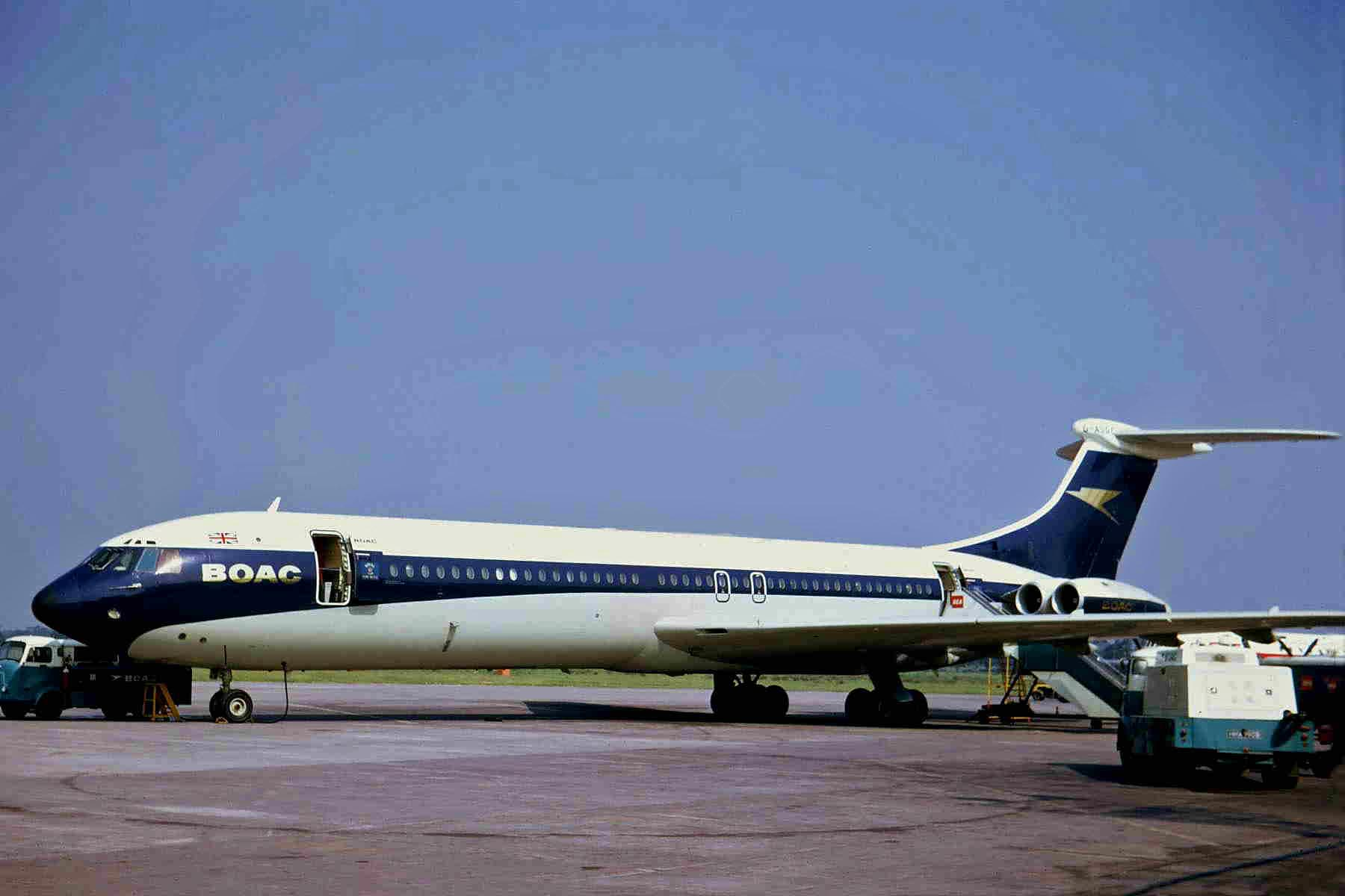 A picture of an airplane (name of it is on the file name).